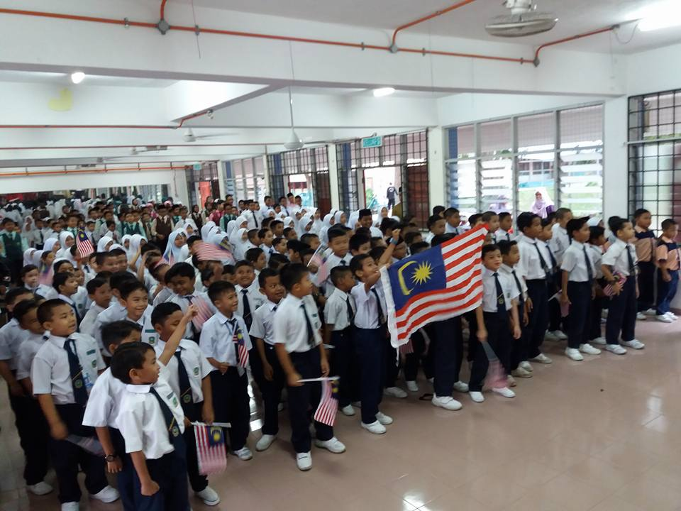 AKTIVITI MERDEKA